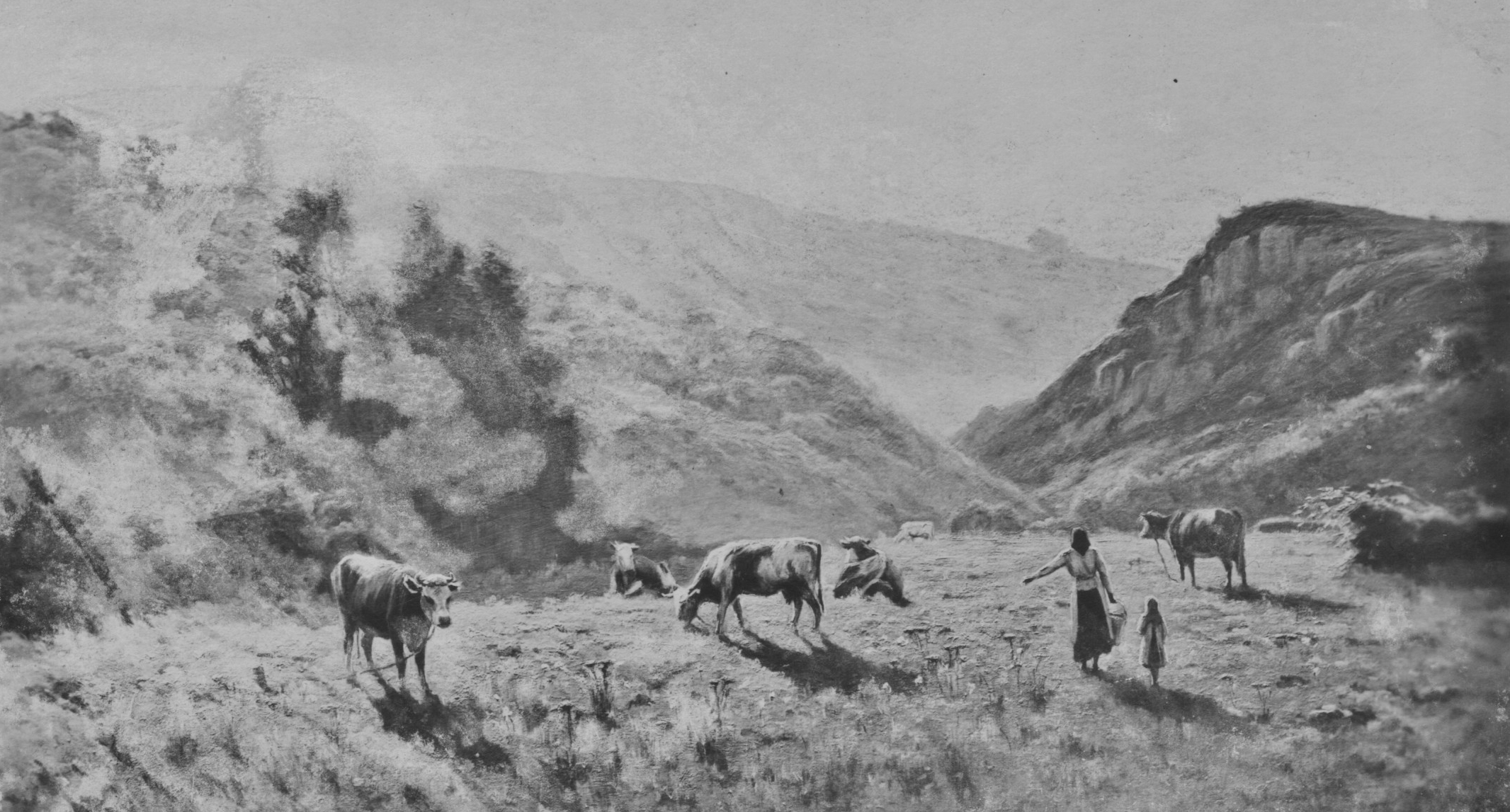 Peinture de Charles Wislin (1852-1932) intitulée " Vallon du Lude à Carolles" et exposée au salon de Paris. Carte postale ancienne.